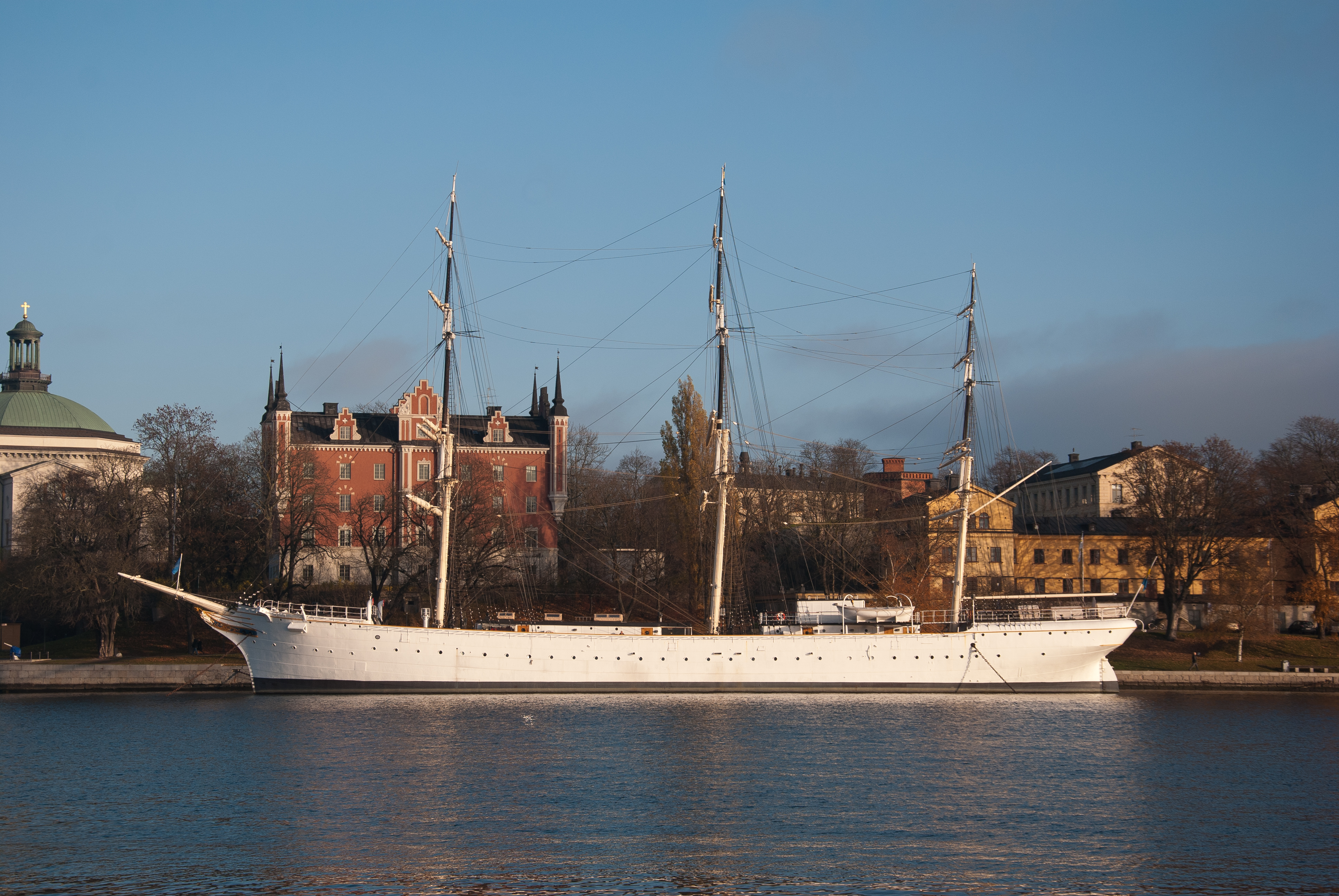 The af Chapman, formerly the Dunboyne (1888–1915) and the G.D. Kennedy (–1923), is a full-rigged steel ship moored on the western shore of the islet Skeppsholmen in central Stockholm, Sweden, now serving as a youth hostel.